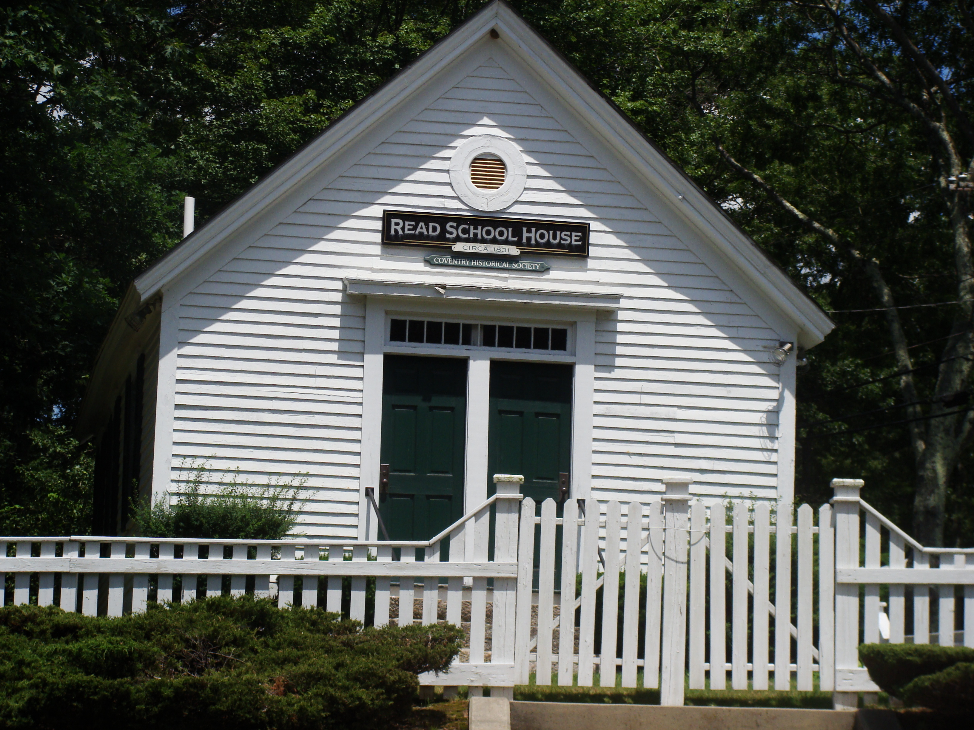 The front of Read School, taken from across Flat River Road.